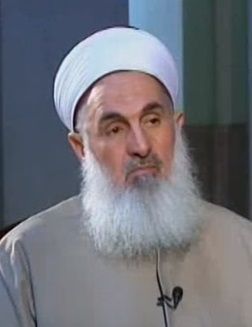 Mehdi al-Sumaidaie, guest of "Liqa' al-Khas" on Biladi Tv - Jan 26, 2017